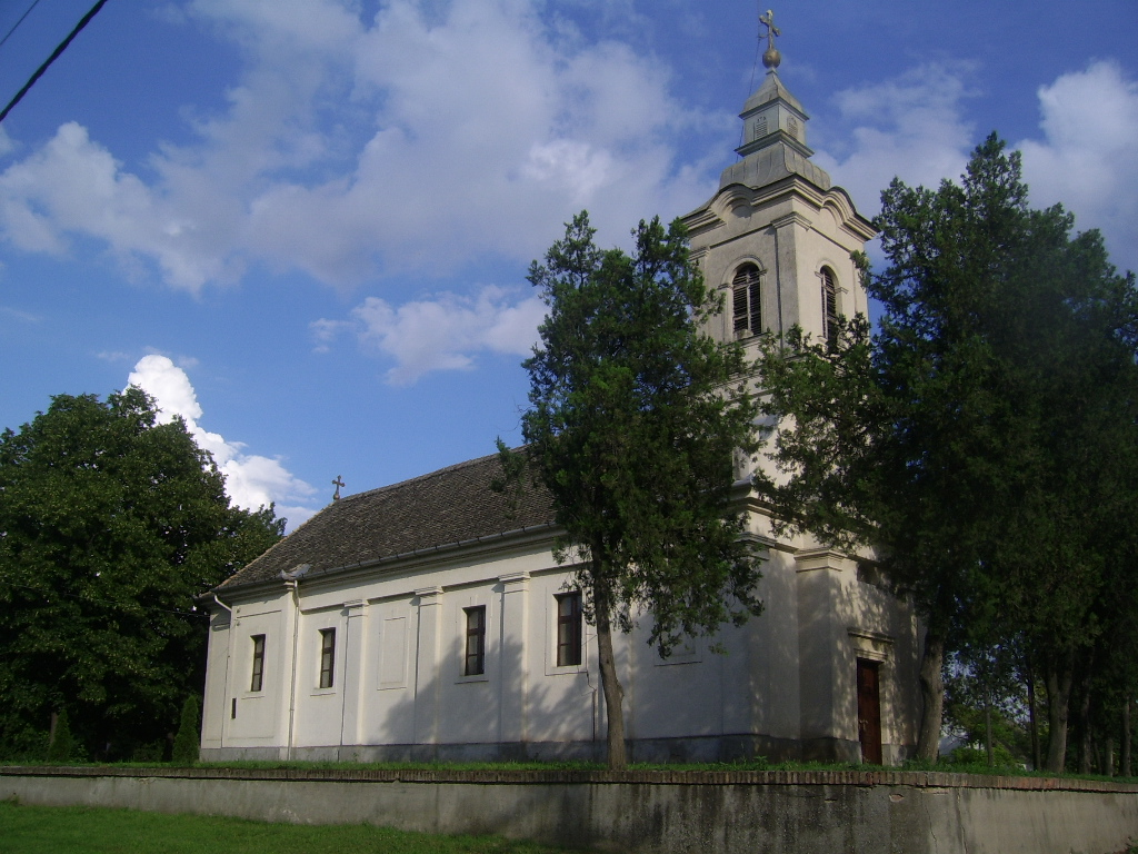 The serbian orthodox church in Újszentiván, Hungary